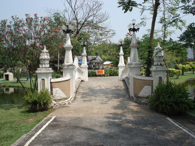 Buak Hard Park (Chiangmai)